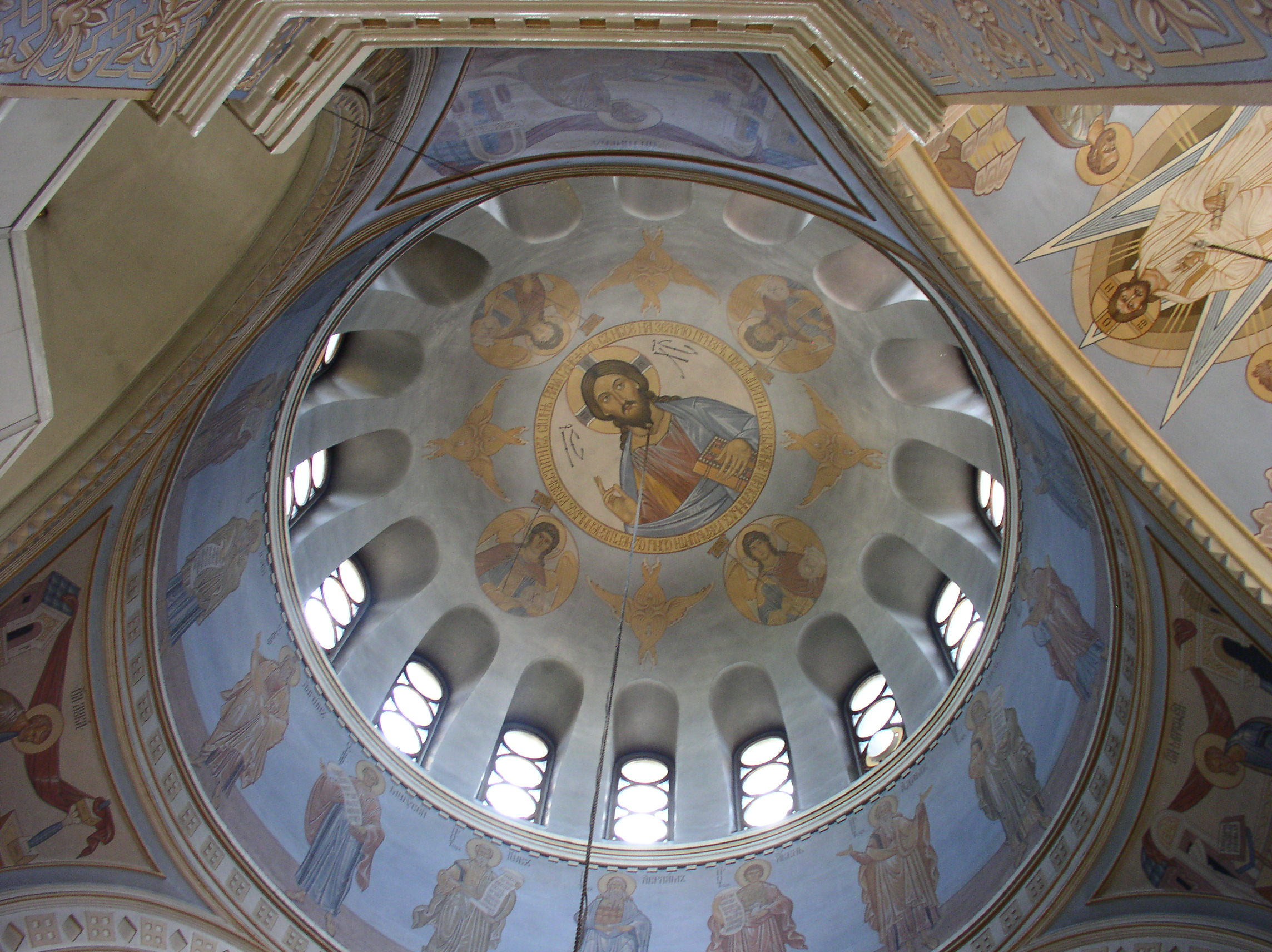 Alexander Nevsky Cathedral in Novosibirsk